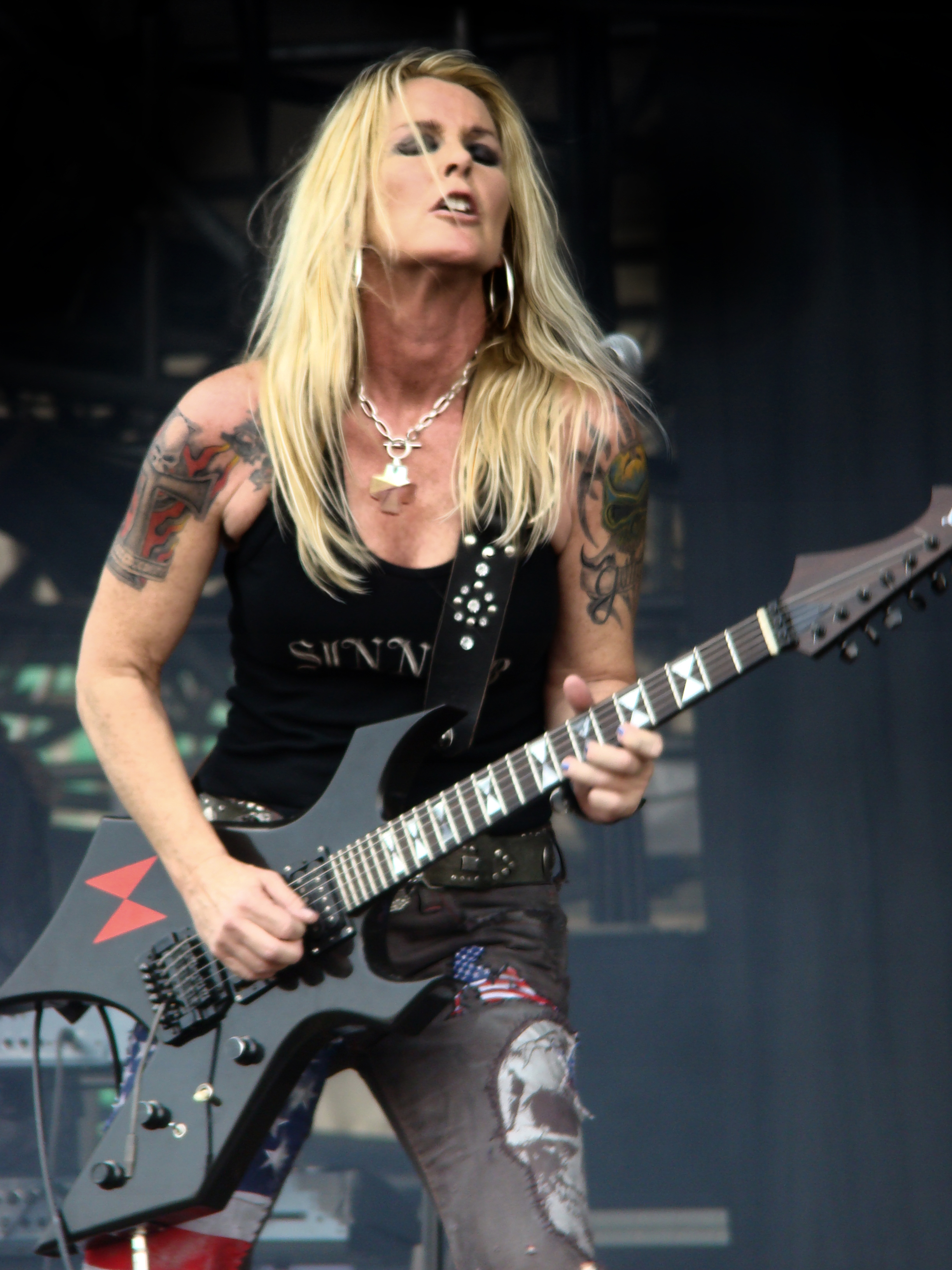 Lita Ford, american rock musician and singer